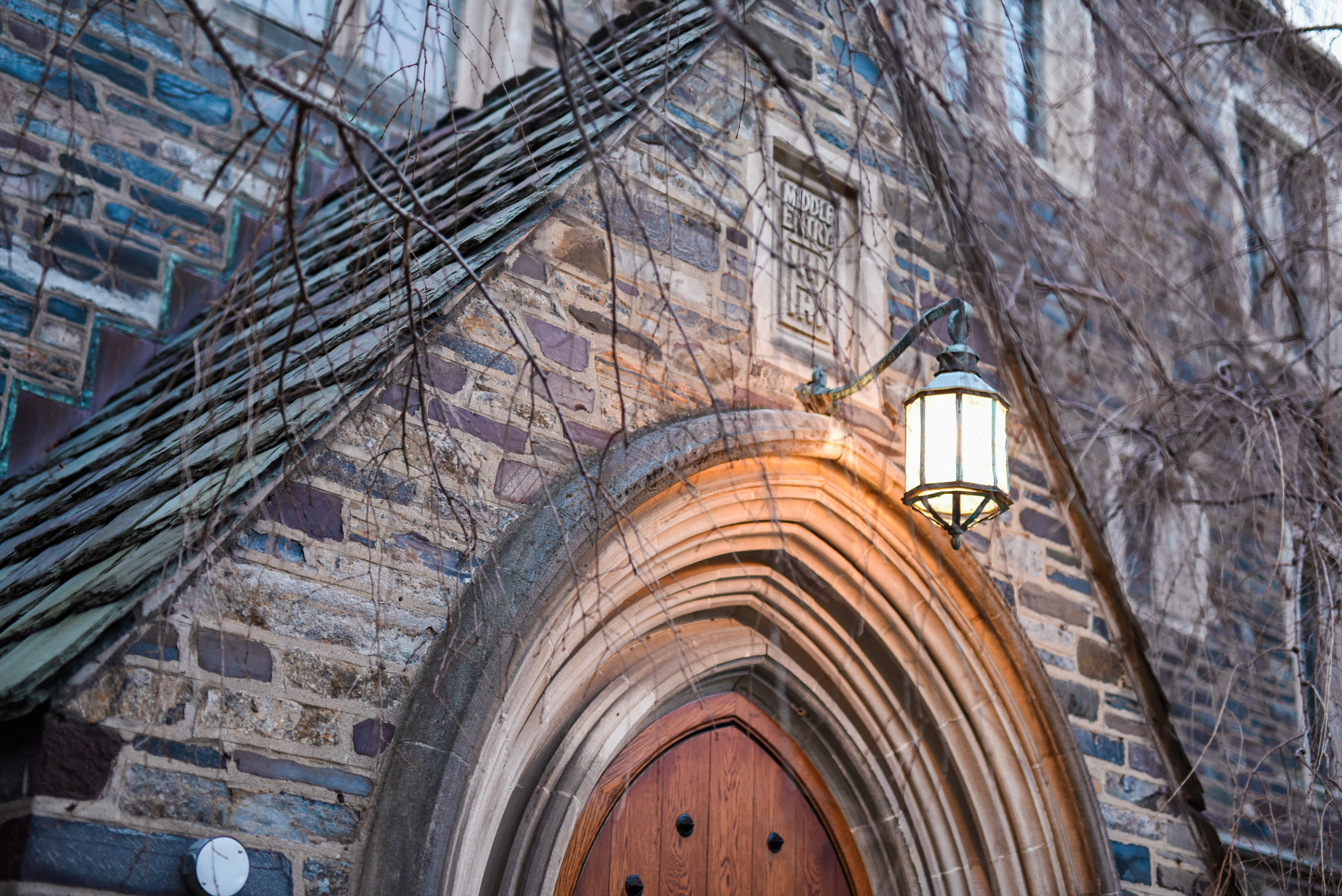 A light at the Princeton campus.